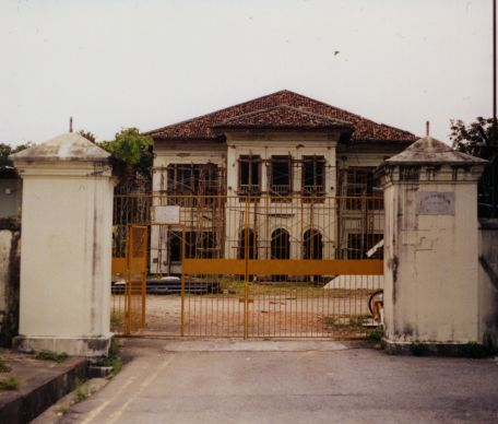 The Istana Kampong Glam at the start of restoration.